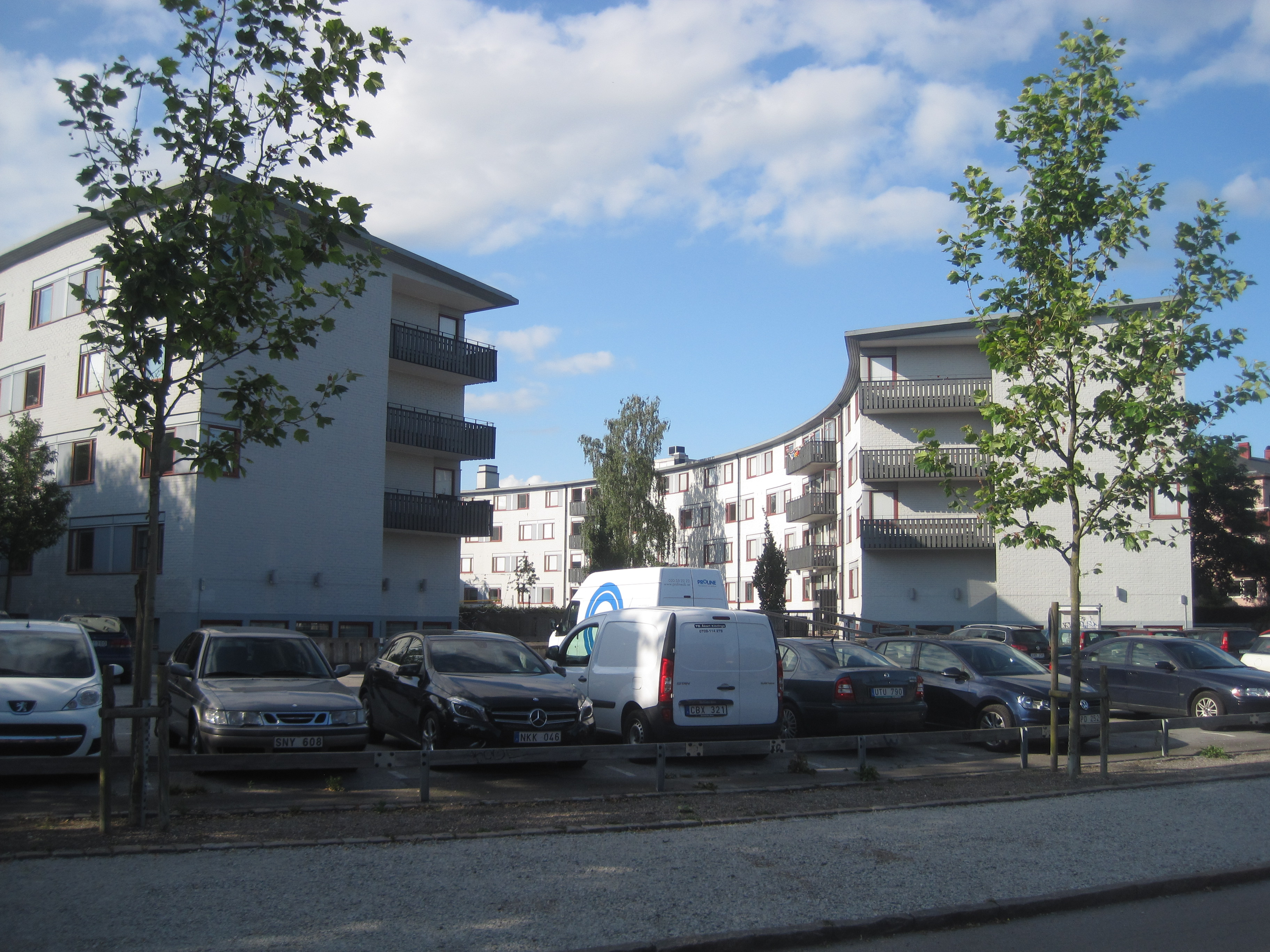 "Parentesen", a student accomodation from 1964 in Lund, Sweden, owned by the trust AF Bostäder. Architect: Hans Westman.